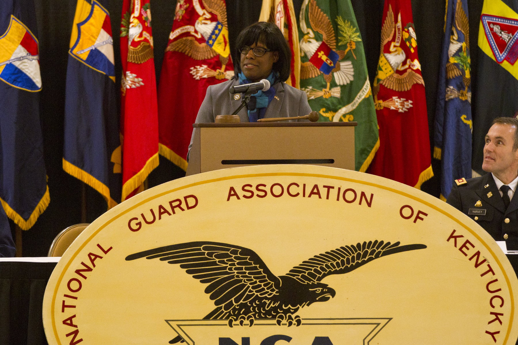 Lt. Gov. Jenean Hampton speaks to Kentucky Guardsmen gathered for the annual National Guard Association of Kentucky Conference in Louisville, Ky., Feb. 6, 2016. (U.S. Army National Guard photo by Staff Sgt. Scott Raymond)